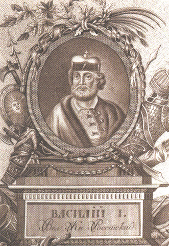 Vasili I of Russia (1389-1425)